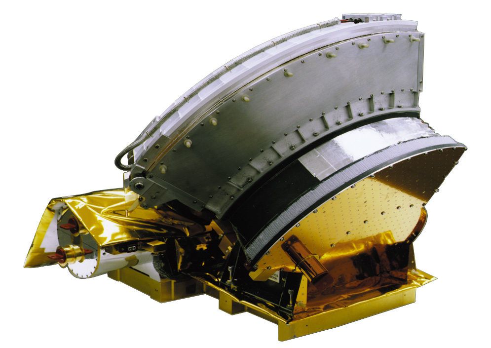 Instrument of the scientific satellite Advanced Composition Explorer. The Solar Wind Ion Composition Spectrometer (SWICS) determines not only the charge of ions, but also the temperature and speeds of all the major solar wind ions. SWICS covers solar wind speeds ranging from 145 km/s (protons) to 1532 km/s (iron). The information recovered tells scientists about the nature of not only the solar wind, but also of solar flares, ISPs, CIRs, and pickup ions.